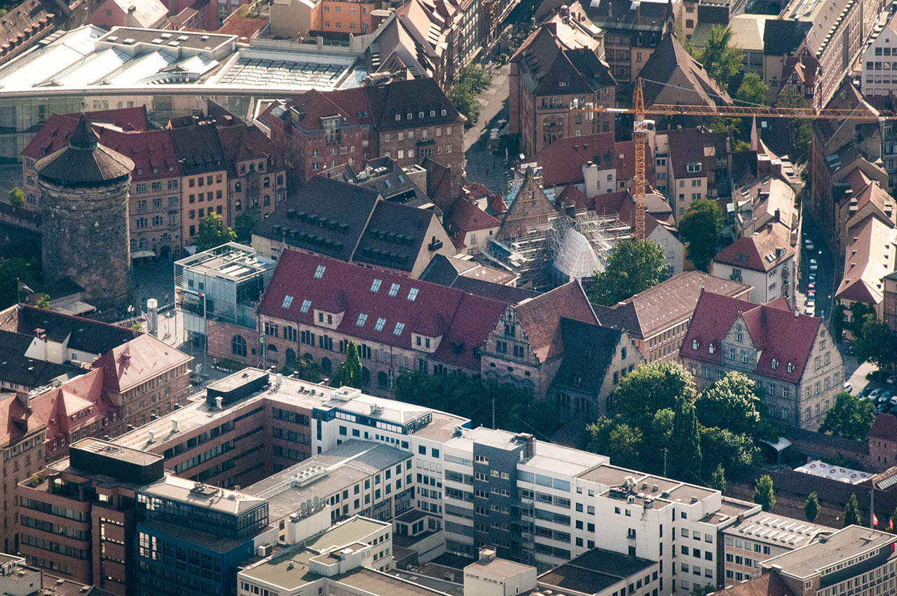 Aerial photography of the Künstlerhaus in Nuremberg, Germany